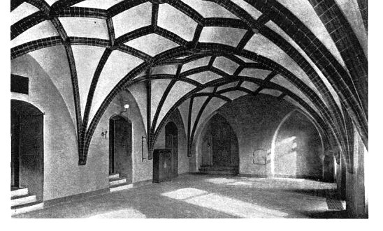 Interior view of the Gymnasium zum Grauen Kloster, Berlin appr. 1910